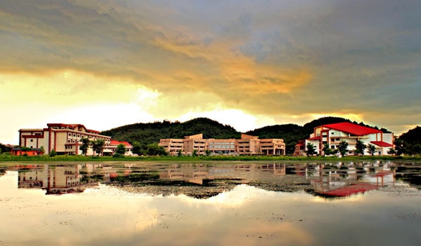 Photo By Vikramjit Kakati